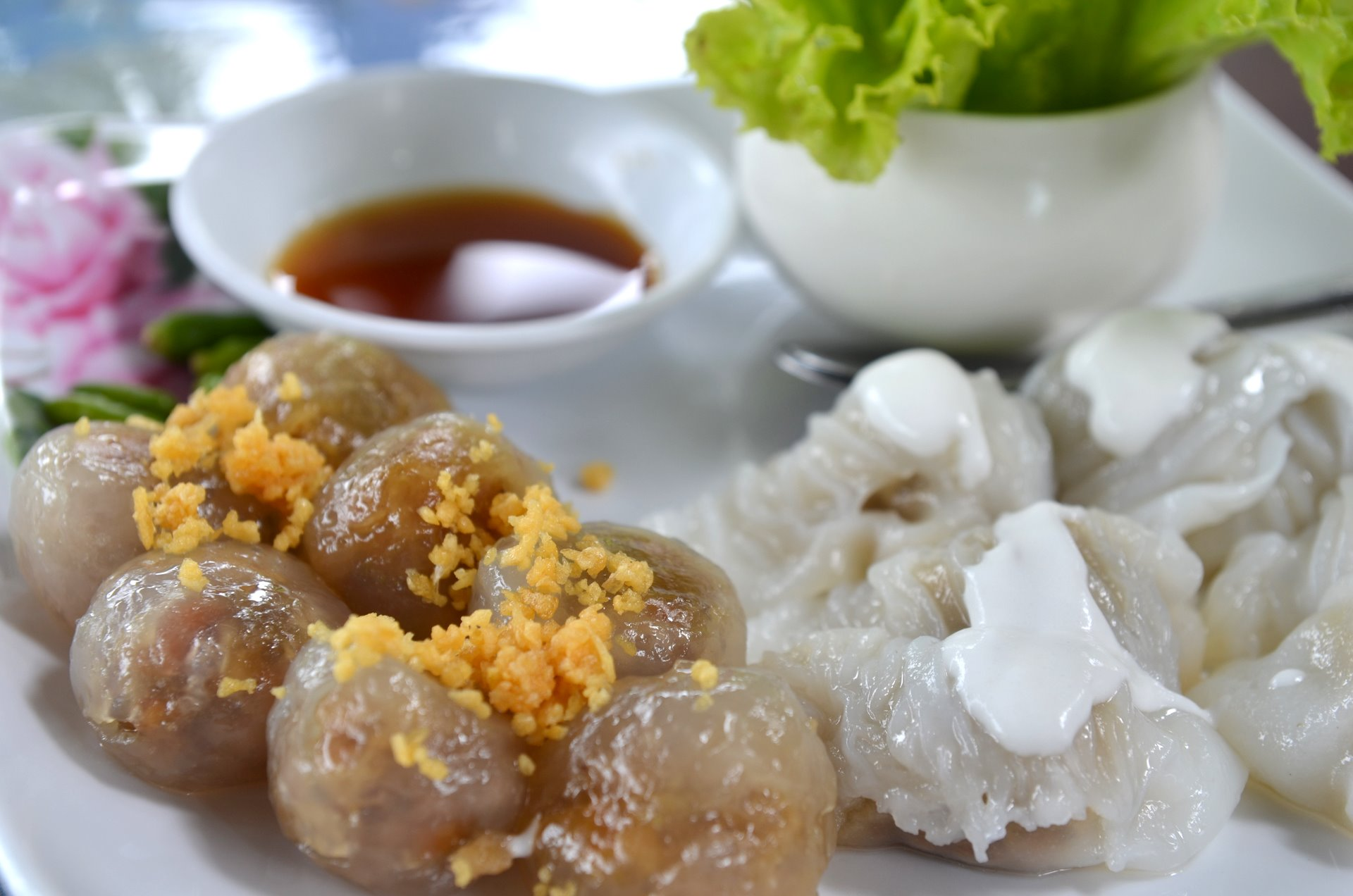 Sakhu sai mu (Thai script: สาคูไส้หมู) are on the left hand side of this image. They are pork filled sago balls, to be eaten with fresh chillies and dipped in Chinese black vinegar. Khao kriap pak mo (Thai script: ข้าวเกรียบปากหม้อ) are on the right hand side of the image. These are steamed rice flour dumplings topped with coconut milk. These two dishes are both sweet and savoury.